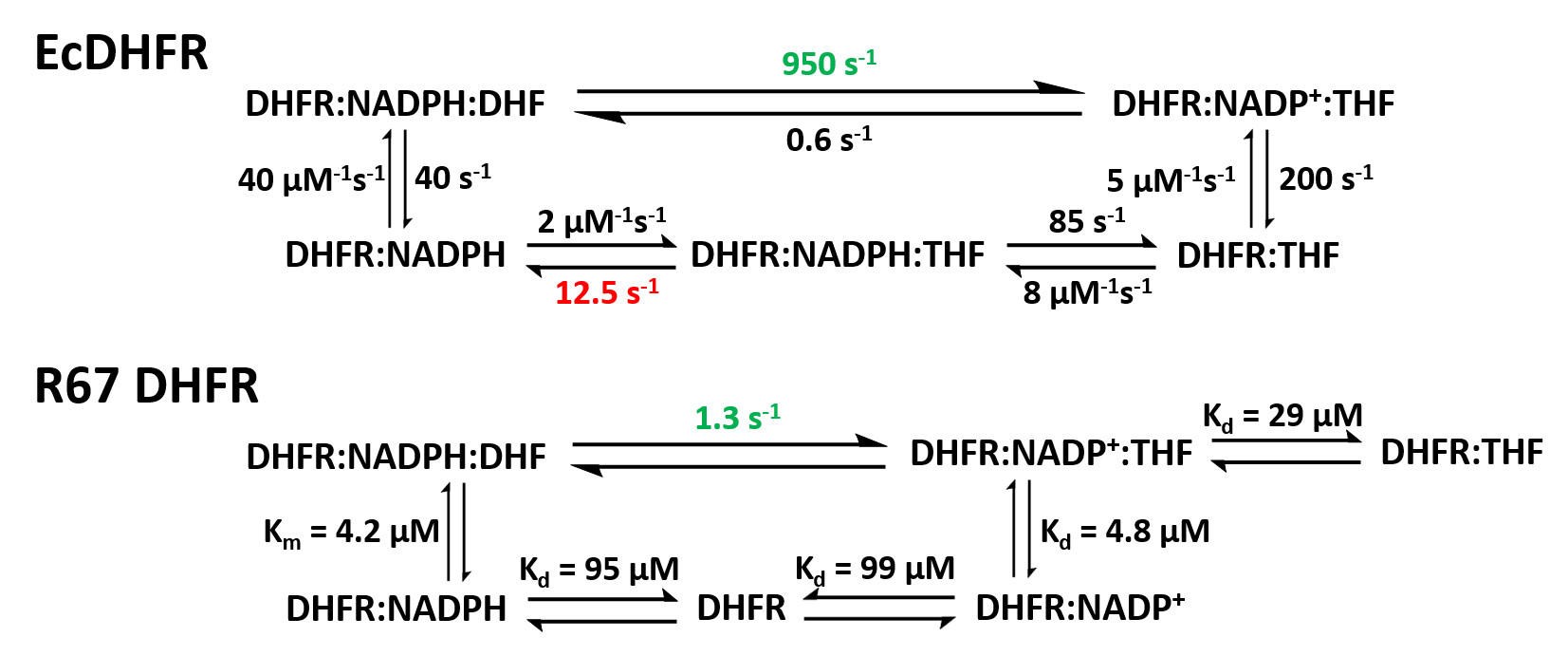 EcDHFR and R67 DHFR's reaction kinetics Rate determine step was shown in red, and hydride transfer step was shown in green